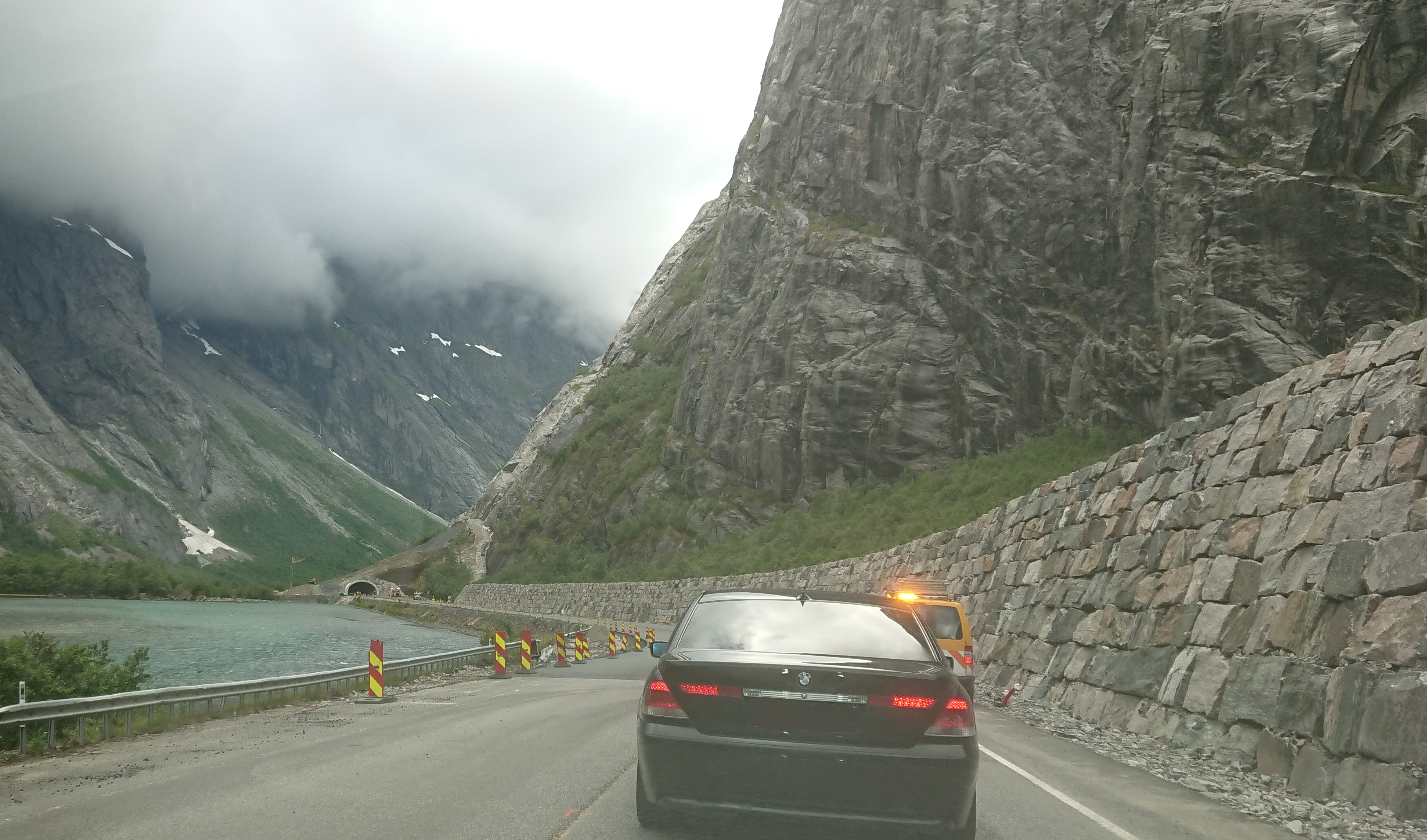 Avalanche protection, road E136 Romsdalen